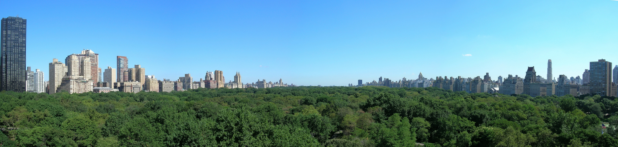 Central Park, NYC, Summer